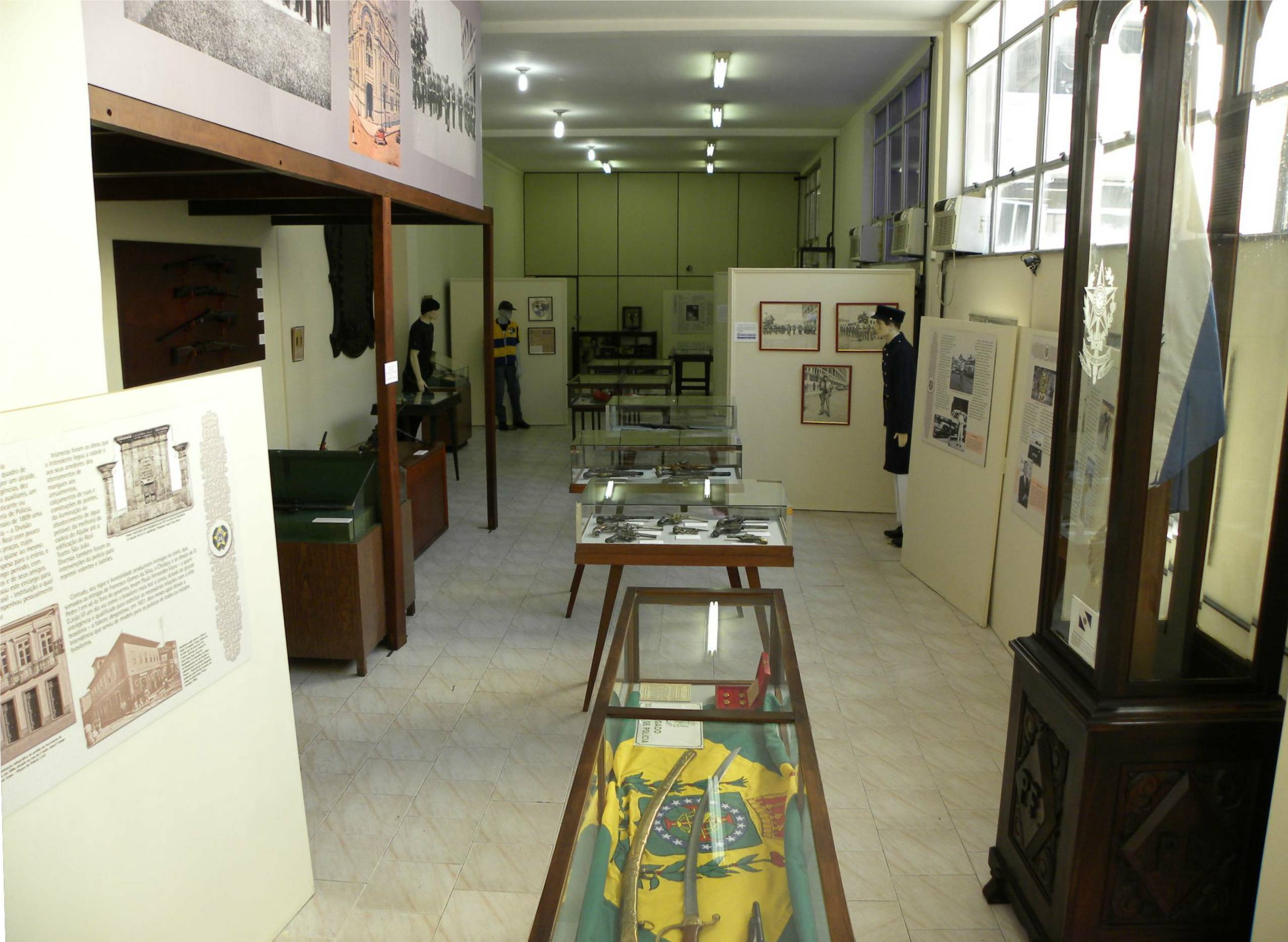 Rio de Janeiro Civil Police Museum - exposition